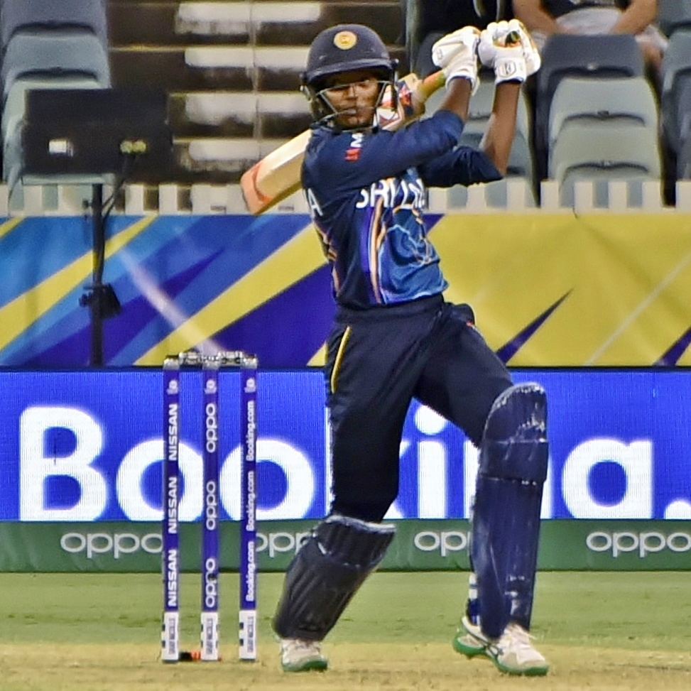 Kavisha Dilhari batting for Sri Lanka against New Zealand during their 2020 ICC Women's T20 World Cup match at the WACA Ground in Perth, Australia